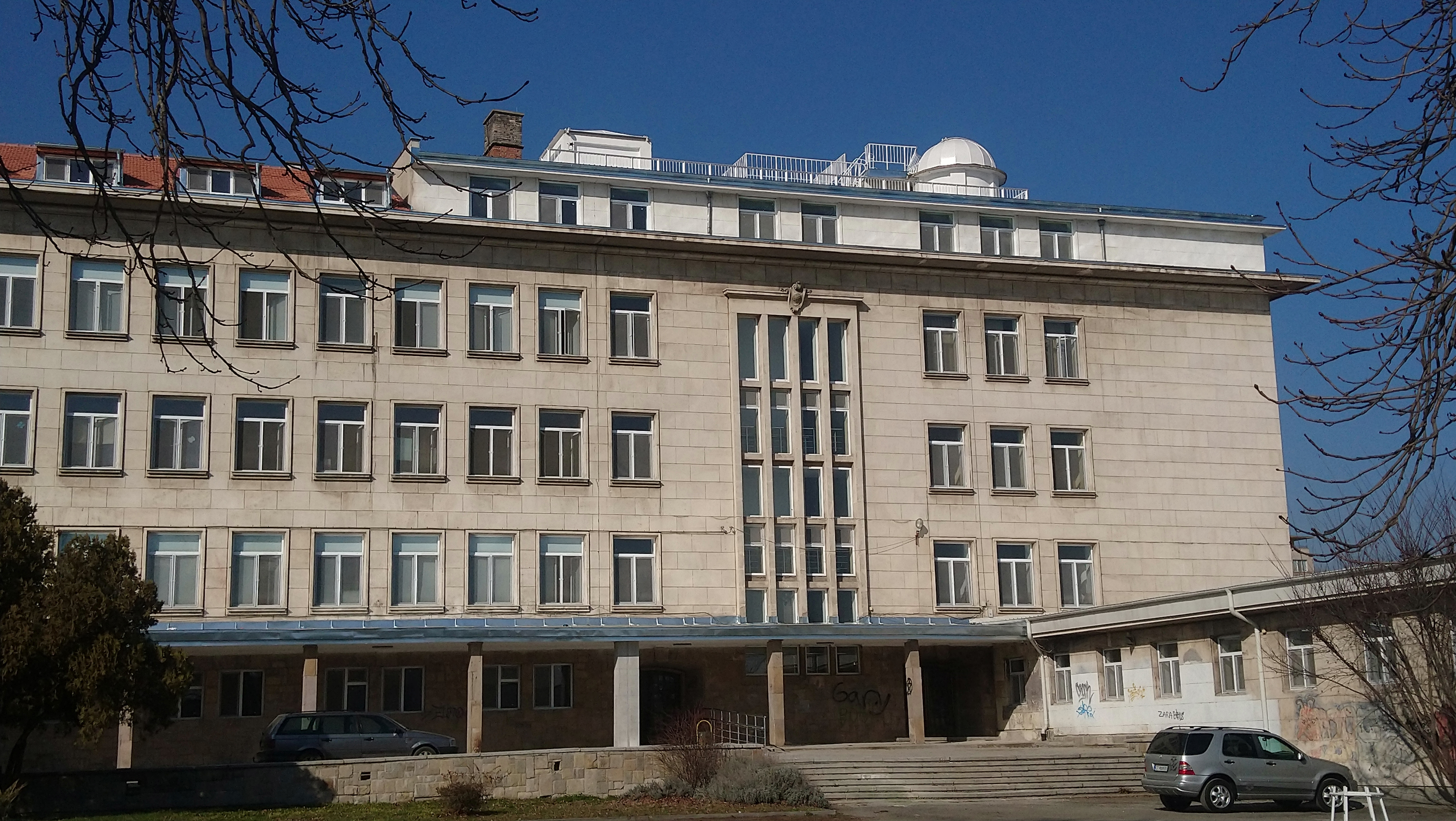 Observatory "Yuri Gagarin" Stara Zagora